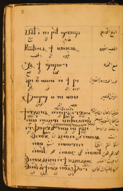 Page from Iryan Moftah Coptic language grammar